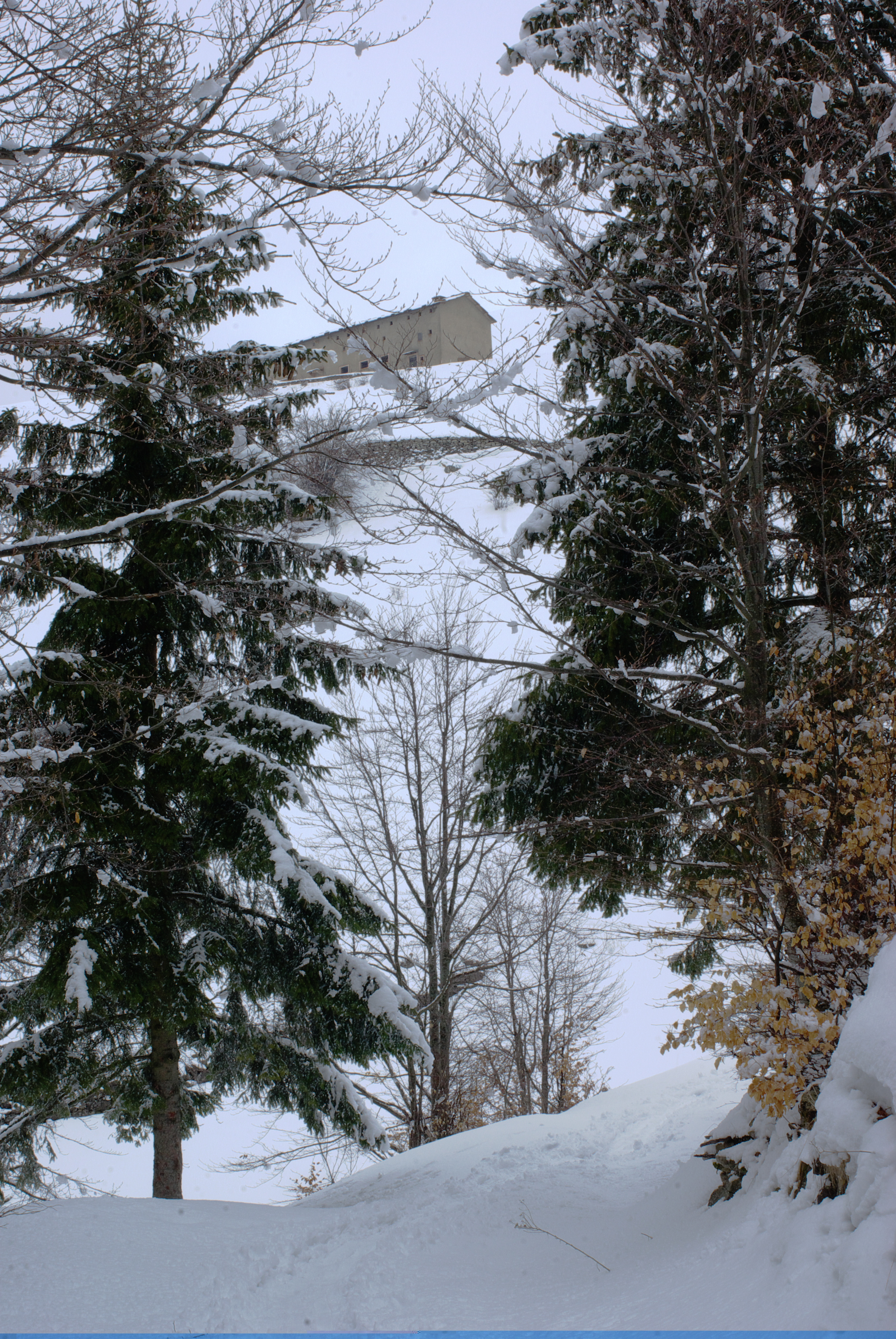 Bosco Chiesanuova (Grietz Dossetti Tinazzo) Lessinia VR Italy 2013-04-01 photo CTG ACA LESSINIA Paolo Villa